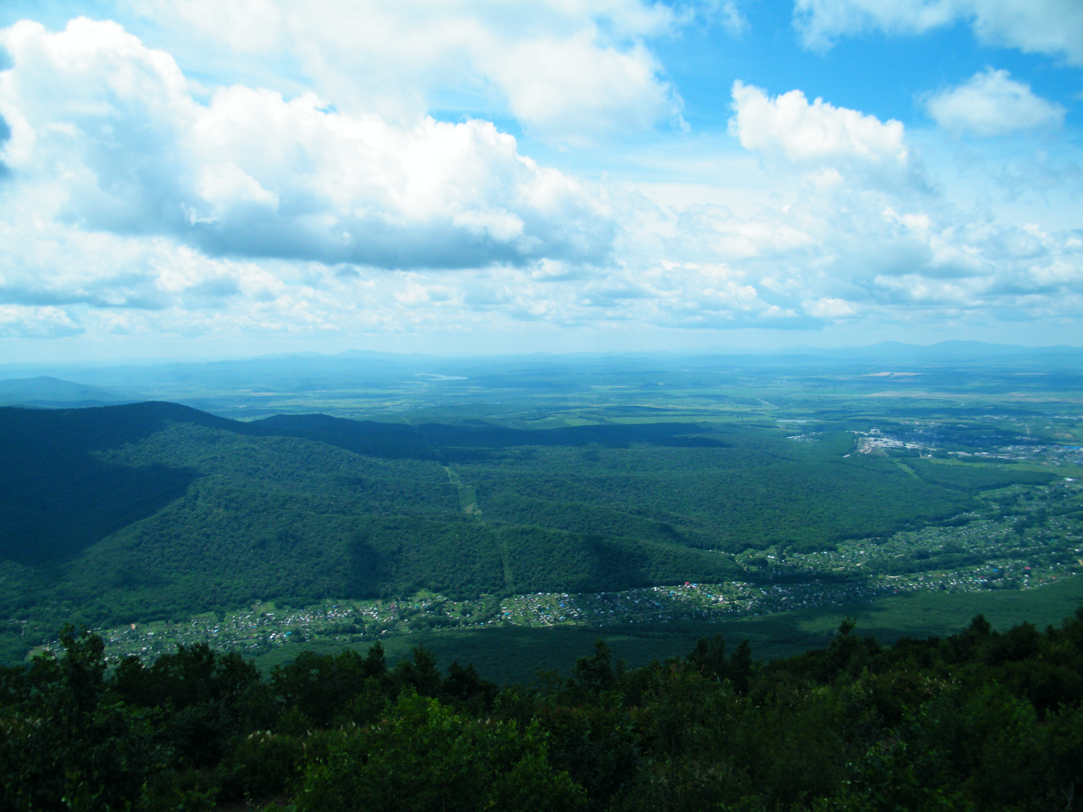 Река Дачная дачи арсеньевцев